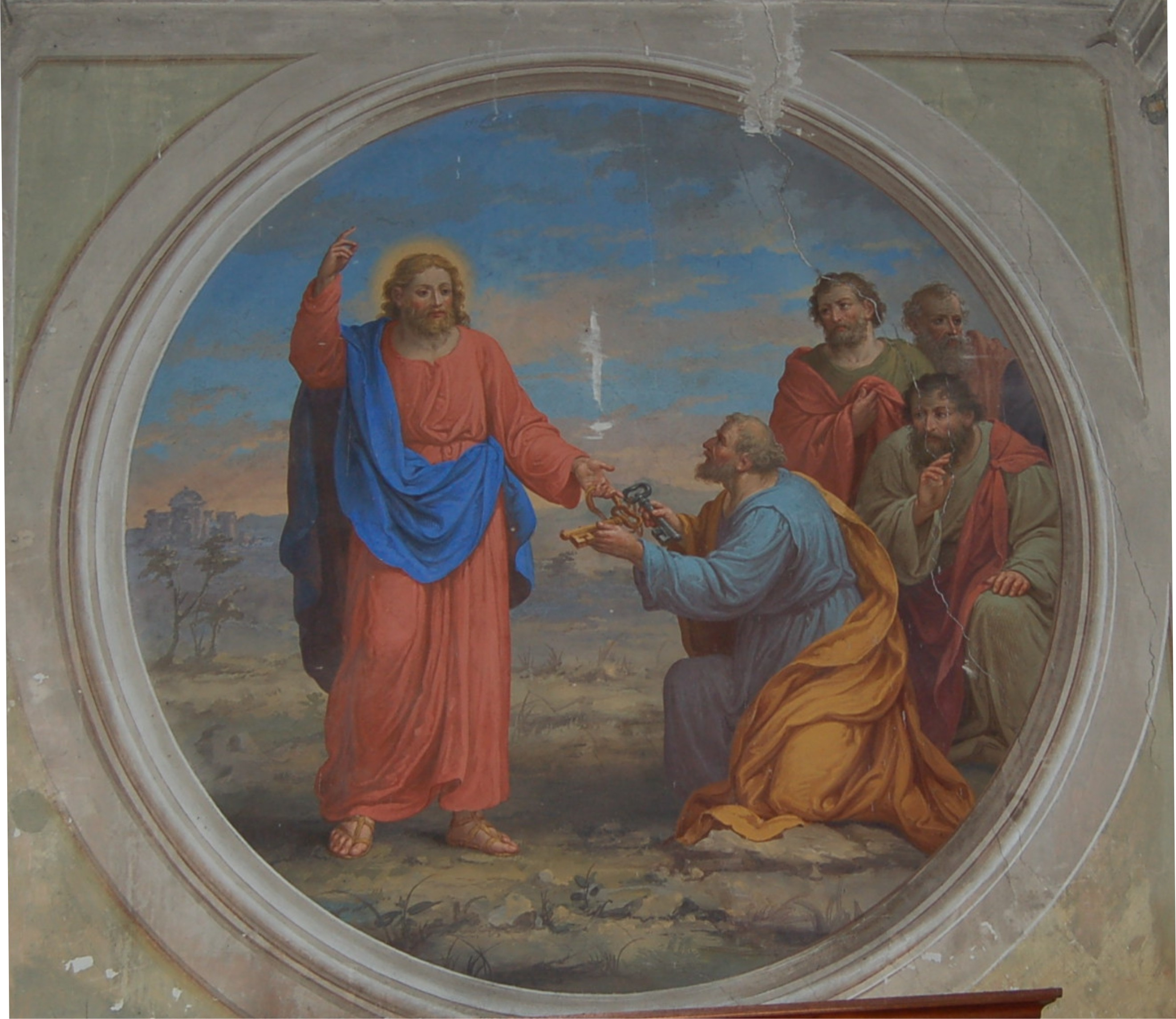 Affresco di Tagliaferri nella chiesa di san pietro martire a Baruffini Tirano Sondrio